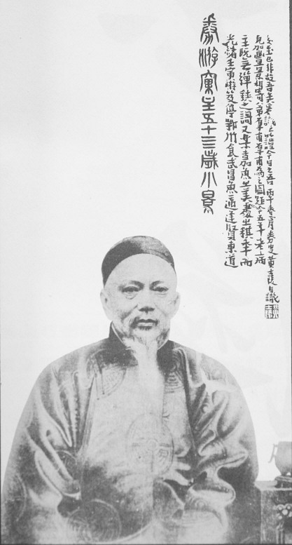 A photo portrait of Huang Shi ling 1849－1908 with his original calligraphy inscription on upper part in 1902.